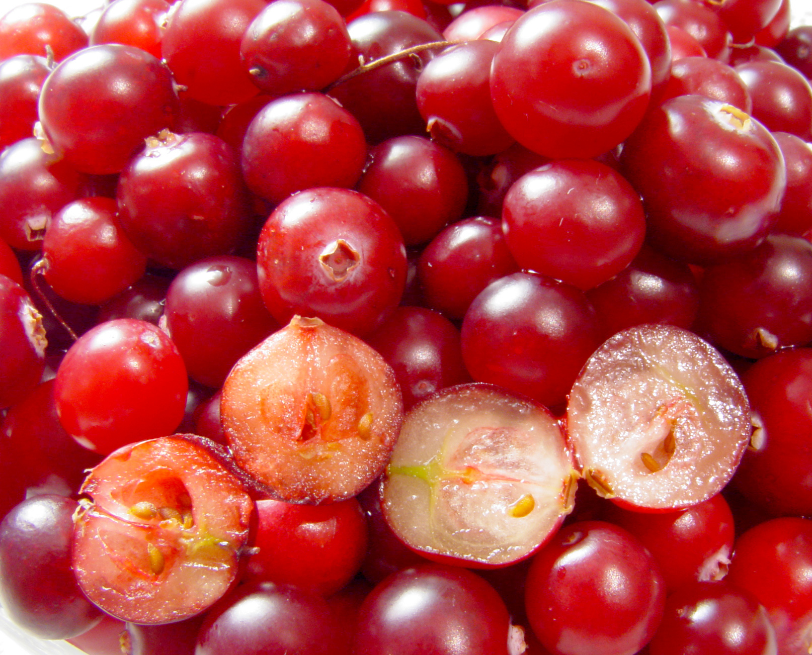 Vaccinium oxycoccus (Cranberries)